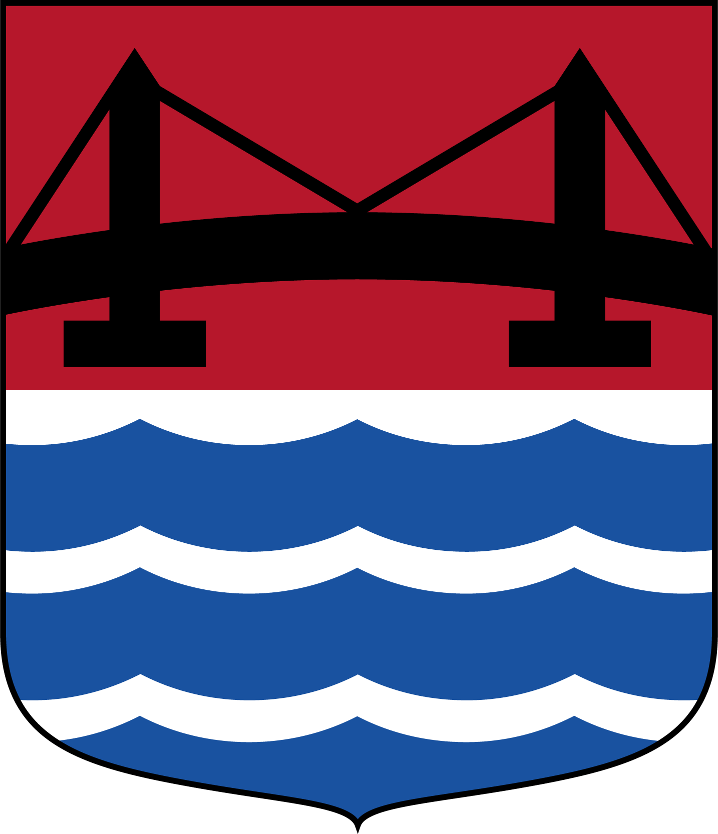 Coat of arms of the municipality of Strömsund, Sweden. Painted by Vladimir A. Sagerlund when he was the heraldic artist at the National Archives of Sweden (Riksarkivet). This representation of a coat of arms is potentially different from the one used by the armiger (municipality or organisation) in question. = ⇑“Sable, a lionrampant or” This coat of arms was drawn based on its blazon which – being a written description – is free from copyright. Any illustration conforming with the blazon of the arms is considered to be heraldically correct. Thus several different artistic interpretations of the same coat of arms can exist. The design officially used by the armiger is likely protected by copyright, in which case it cannot be used here.Individual representations of a coat of arms, drawn from a blazon, may have a copyright belonging to the artist, but are not necessarily derivative works. Further information: Commons:Coats of arms and Template:Coa blazon